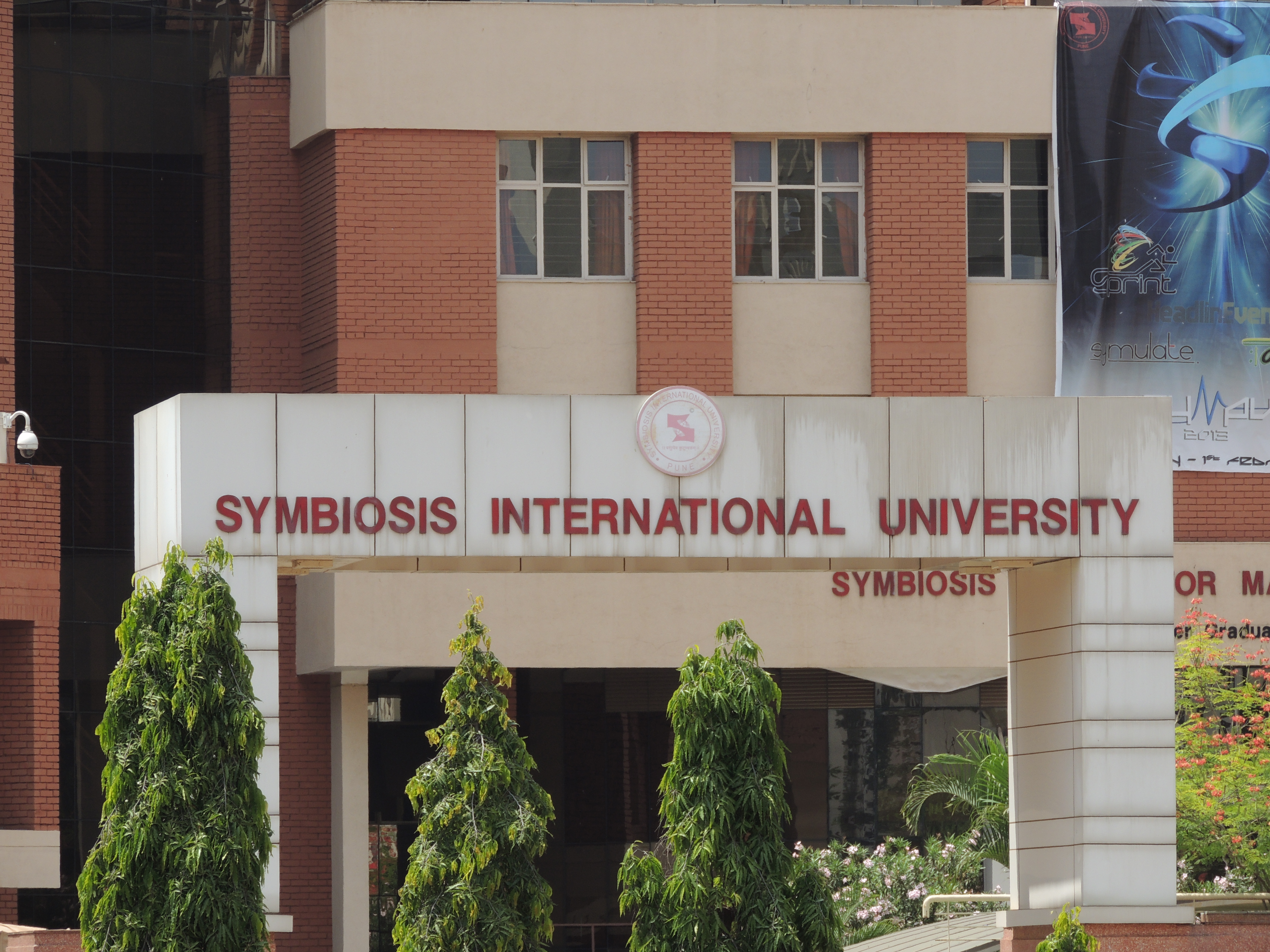 Viman Nagar, Pune, India.